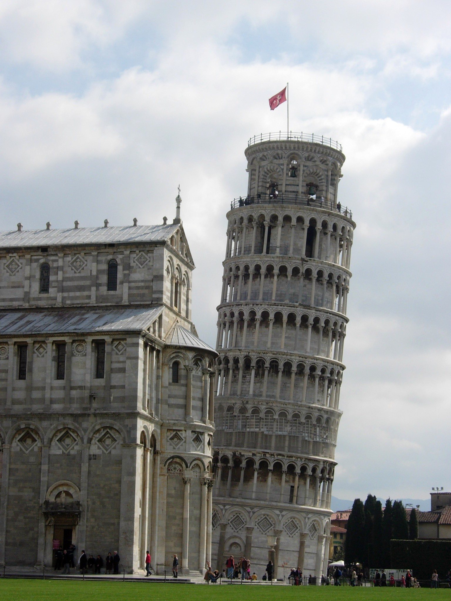 The Leaning tower of Pisa